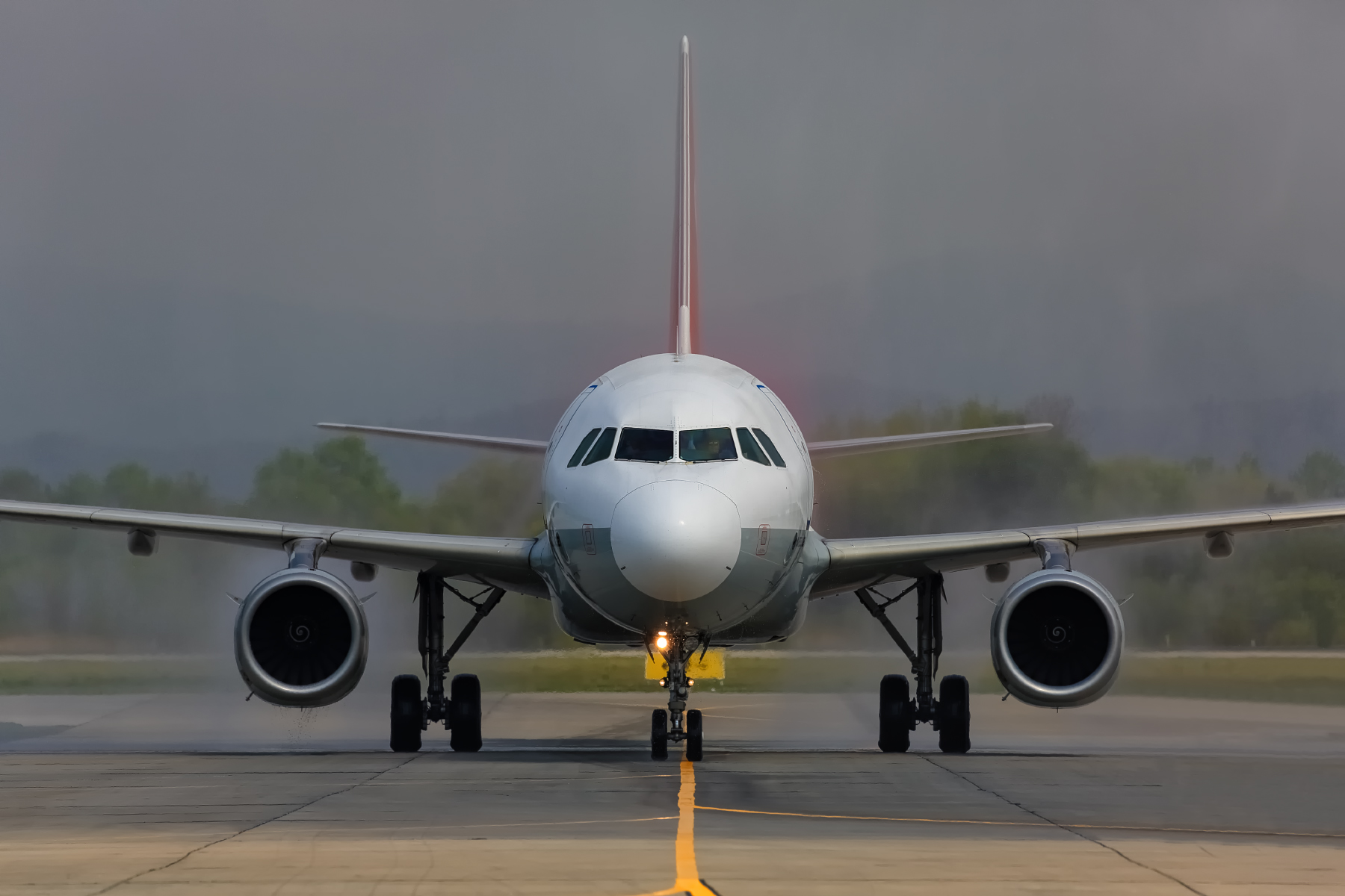 Airbus 321 Sichuan face